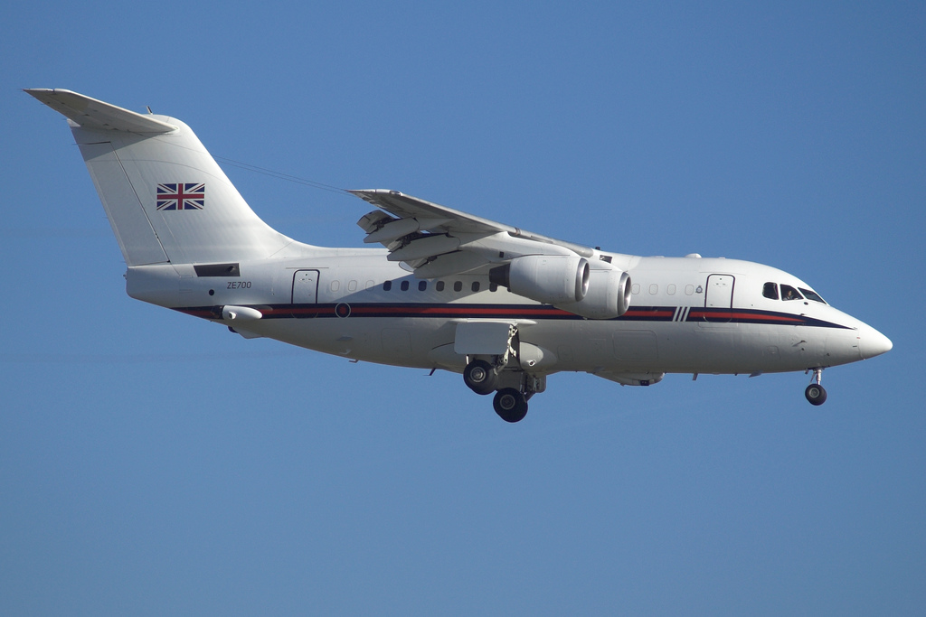 Royal Flight BAe 146 CC2. At Zürich-Kloten (ZRH/LSZH) (671) 47.49° N 8.53° O